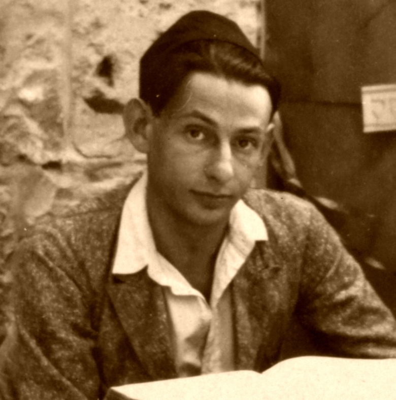 Gershom Scholem sitting in Sukka learning Zohar Depicted person: Gershom Scholem – German-born Israeli philosopher and historian